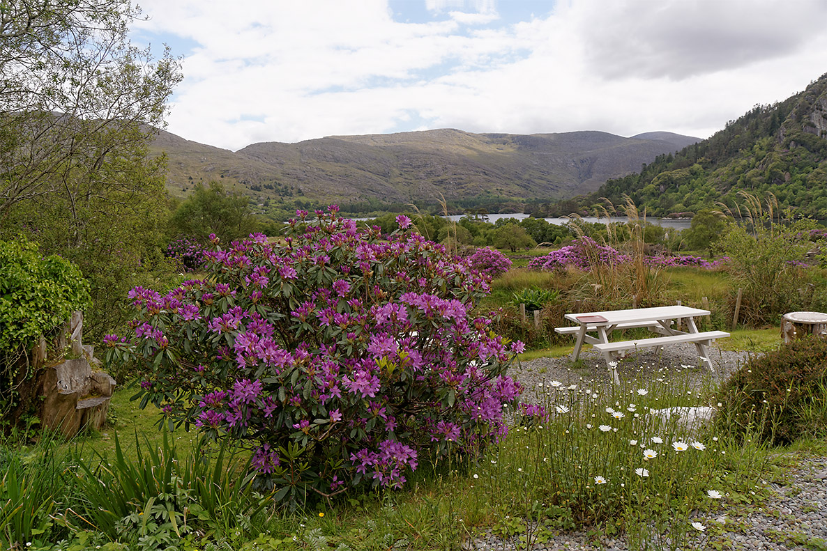 View from Josie's Restaurant of the Glenmore Lake on the Beara Peninsula in Conty Kerry, Republik Ireland